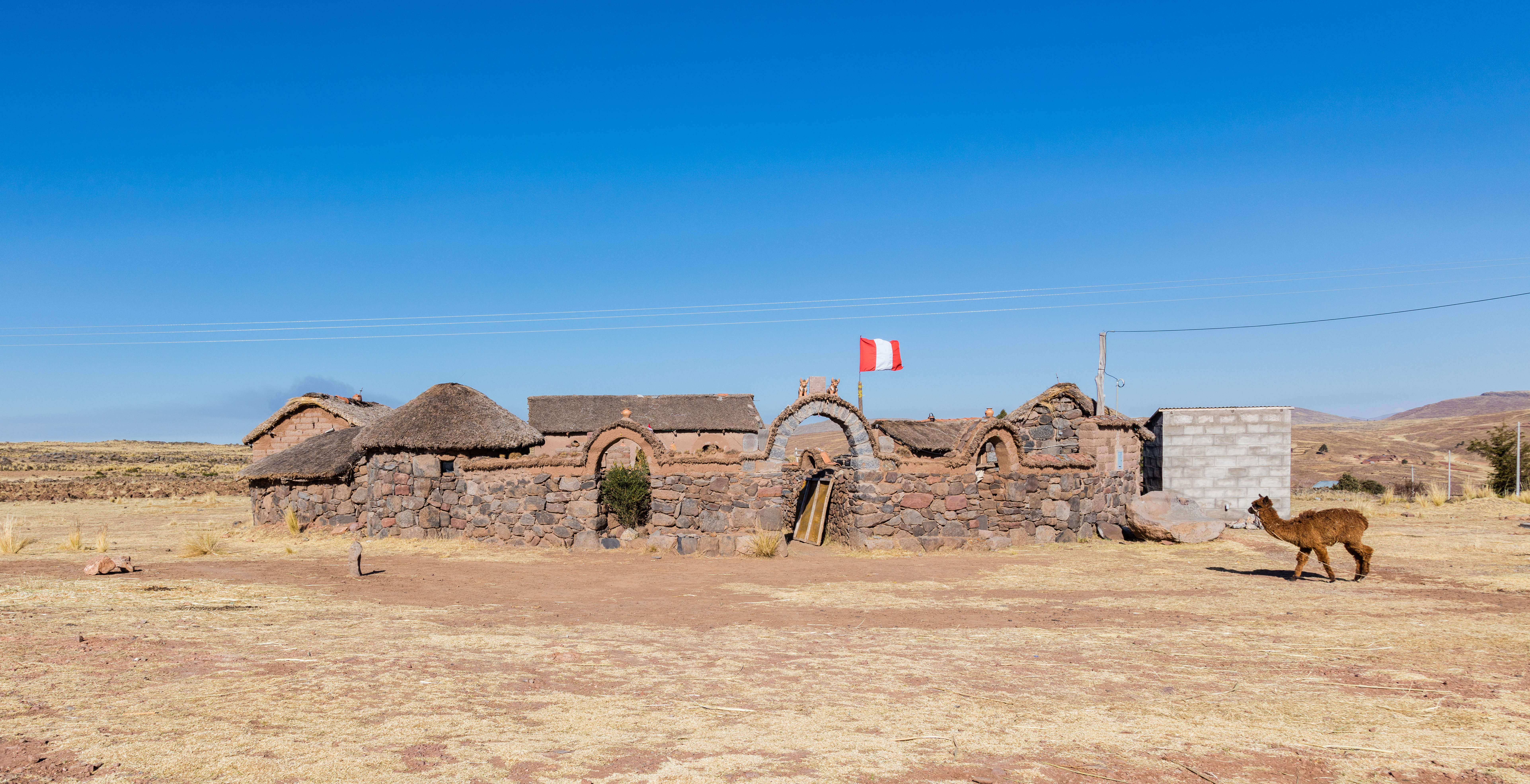 Hacienda near Sillustani, Peru